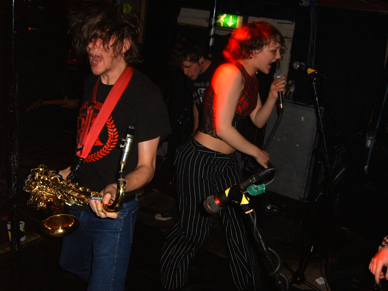 NoComply live at The Ferry Boat Inn, Norwich.